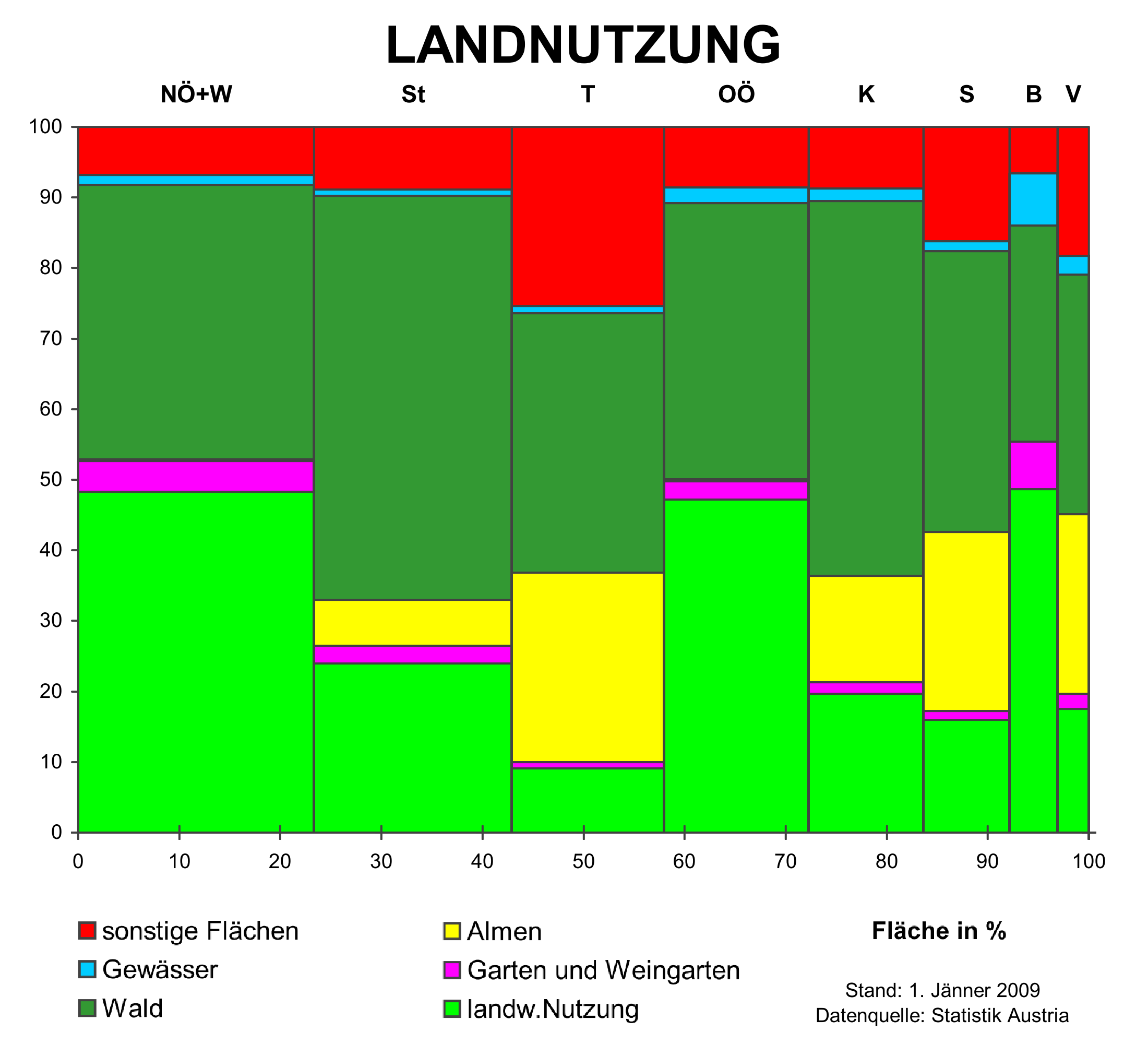 landusage in the "Bundesländer"